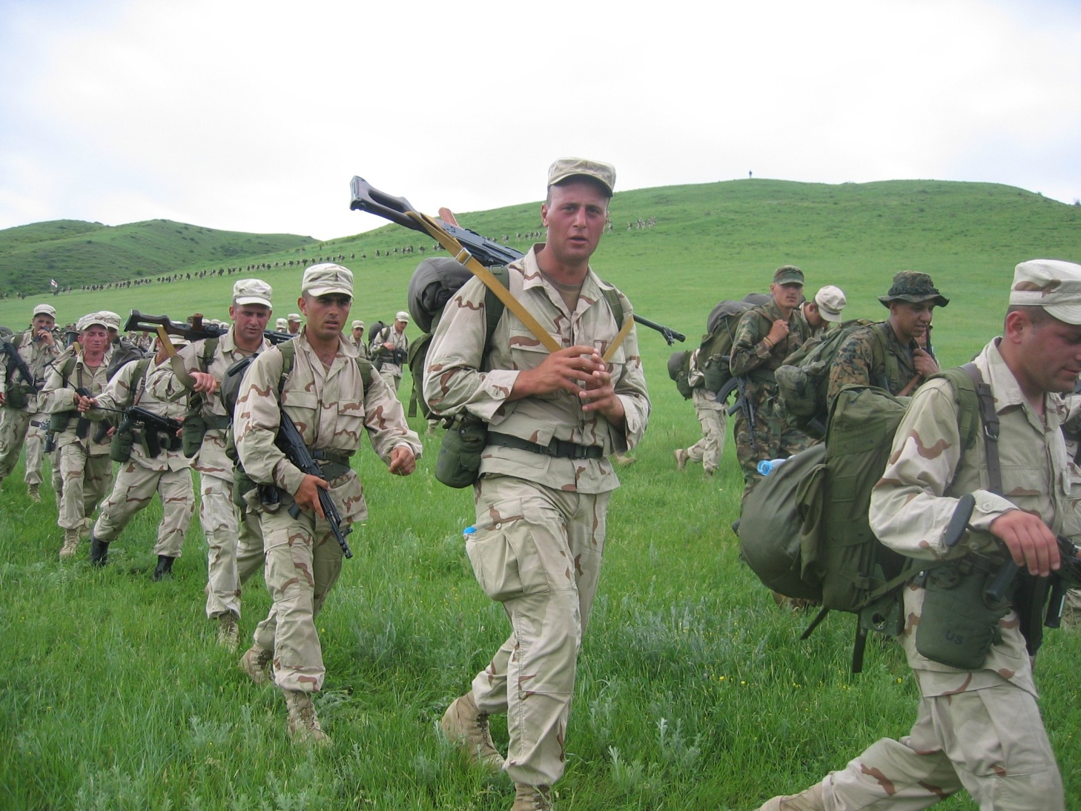 Georgian soldiers of the 23rd Light Infantry Batallion with U.S. soldiers, under the Georgian Sustainment and Stability Operations Program, 2005